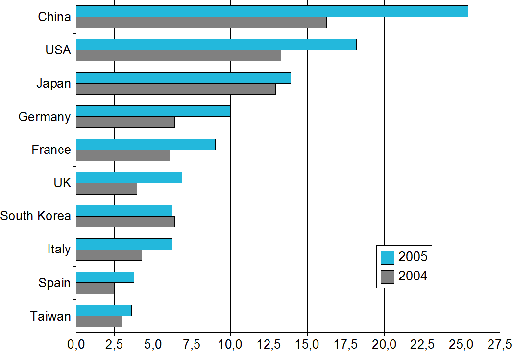 Millions of DSL lines by countries at the end of 2005, compared to the previous year. Contents 1 Source 2 Licensing 3 Original upload log 3.1 File usage on other wikis 3.2 Related galleries Source 'Top Ten' countries by number of DSL lines, Point Topic, 17 March 2006